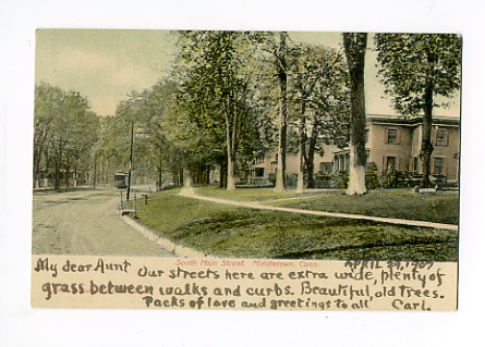 Postcard: South Main Street, Middletown, Connecticut, 1907 postmark Description: "Description undivided back view "Size approx 3 1/2 x 5 1/2 inches "Publisher Langsdorf "Postally used? yes" Message: "April 2[4?], 1907 / My dear Aunt, Our streets here are extra wide, plenty of / grass between walks and curbs. Beautiful old trees. / Packs of love and greetings to all, Carl"